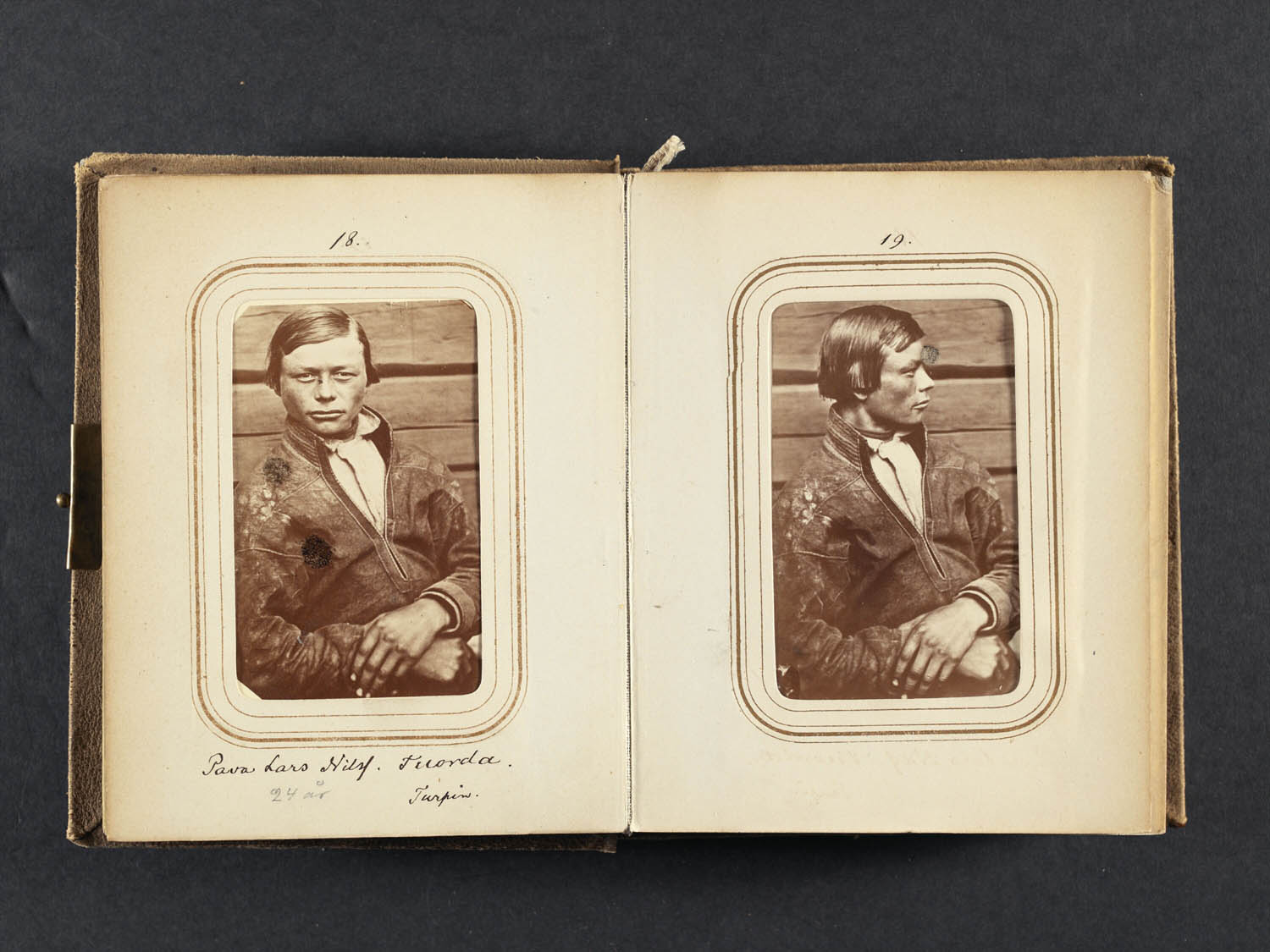 Depicted person: Pava Lars Nilsson Tuorda depicted place: Lappland, Lule lappmark, Jokkmokk, Tuorpon (Sverige (SE))